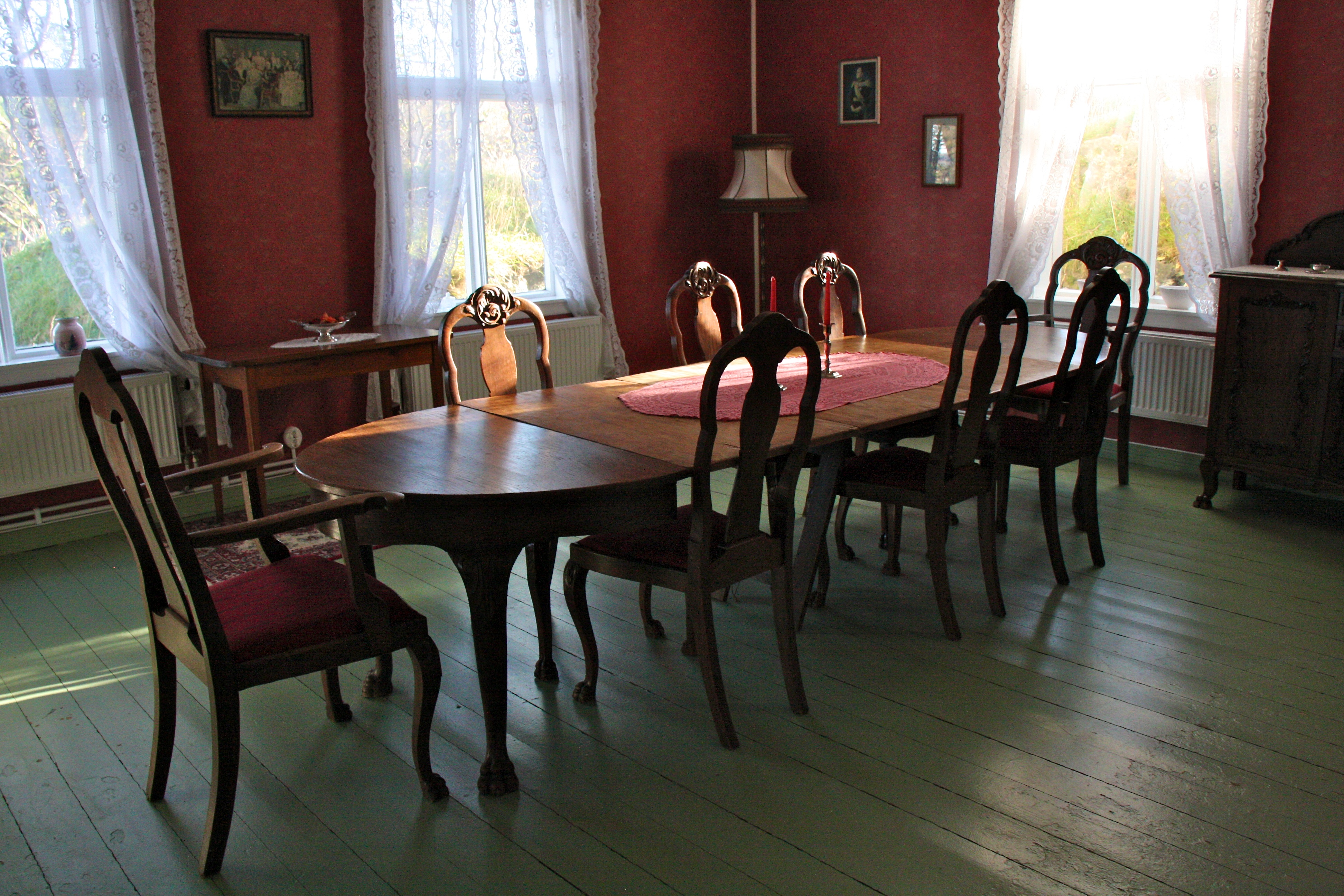 Gulen municipality, Norway.